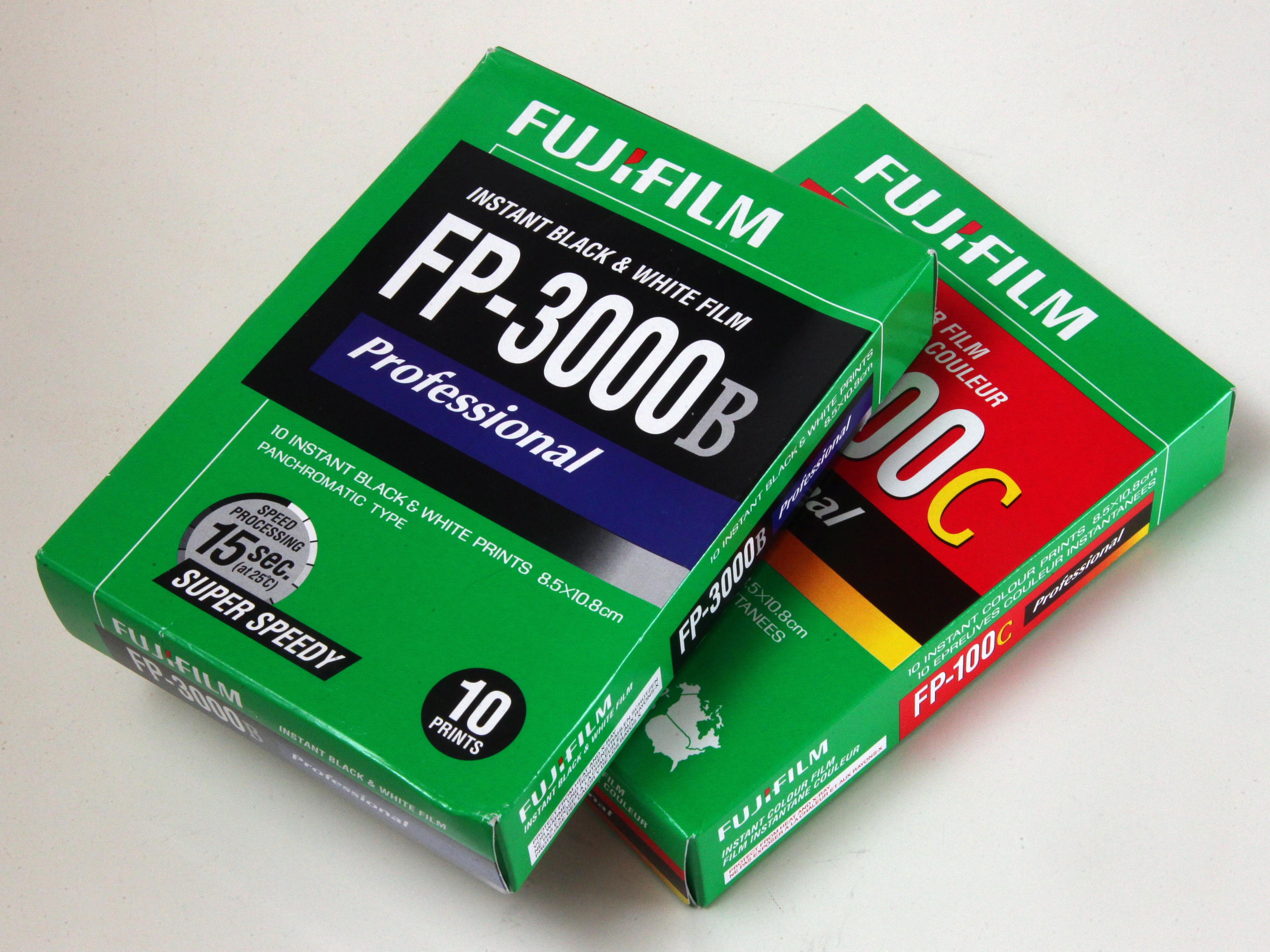 Two packs of Fujifilm FP-100c (color) and FP-3000b (b&w) Instant pack film 100-series.